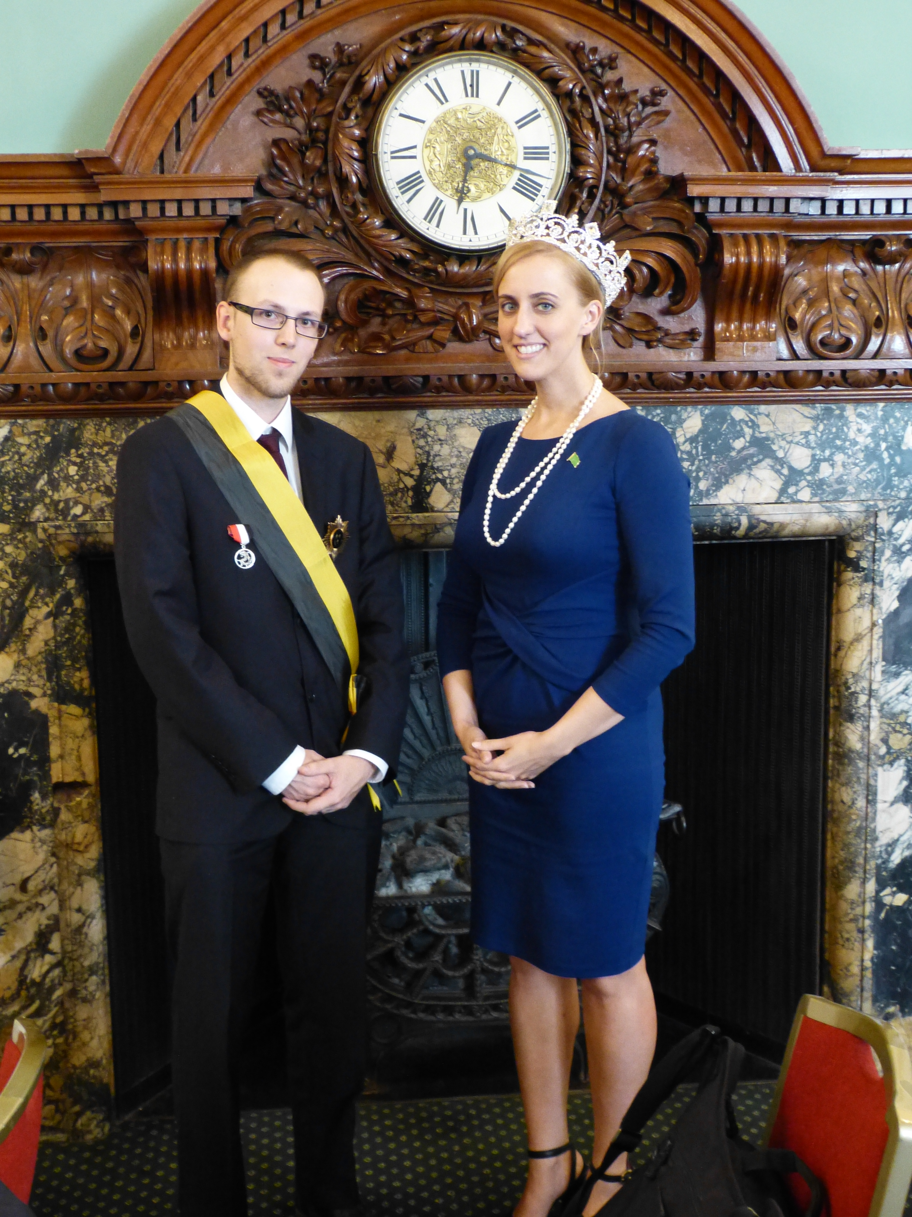 Niels Vermeersch with the queen of Ladonia during Polination micronational Conference at London.